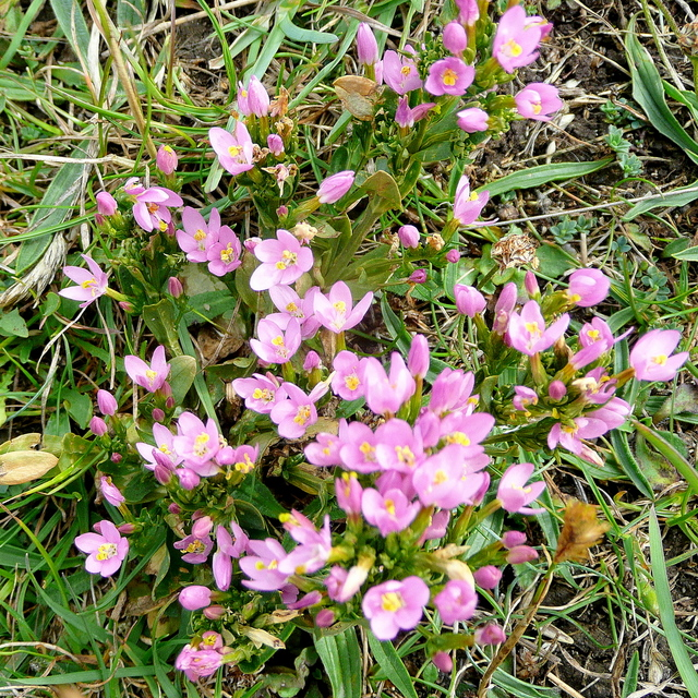 Common Centaury, Centaurium erythraea A delightful plant on the clifftop at Sand Point. The stunted habit will be because of its exposed location.